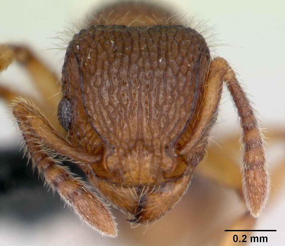 Head view of ant Tetramorium lanuginosum specimen casent0125328.